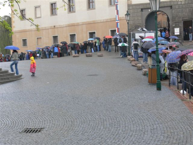 The exhibition of the Czech coronation jewels attracts thousands of visitors. The queue in front of the Black Tower of the Prague Castle (2008).